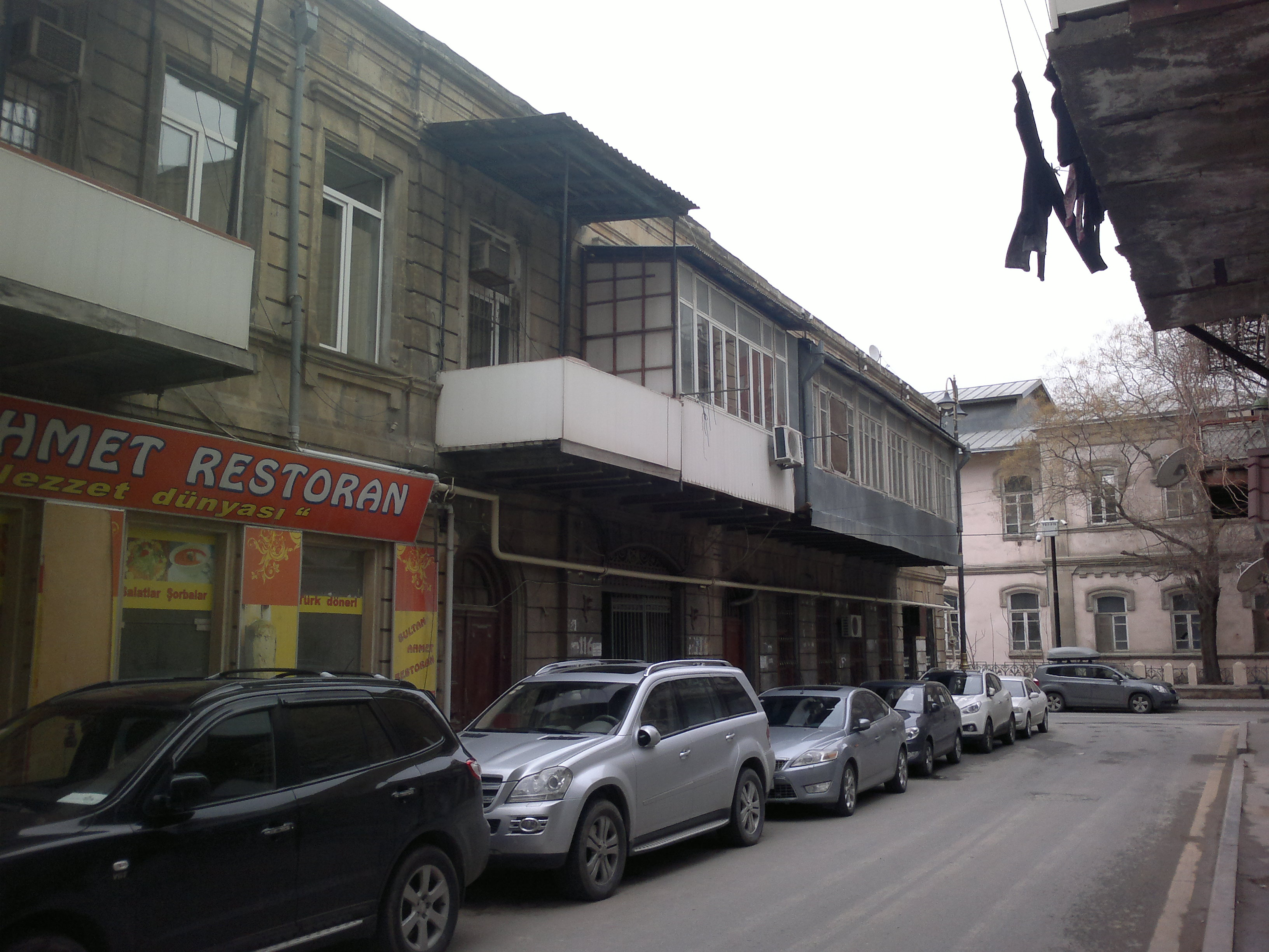 Building on Suleyman Rahimov Street 116